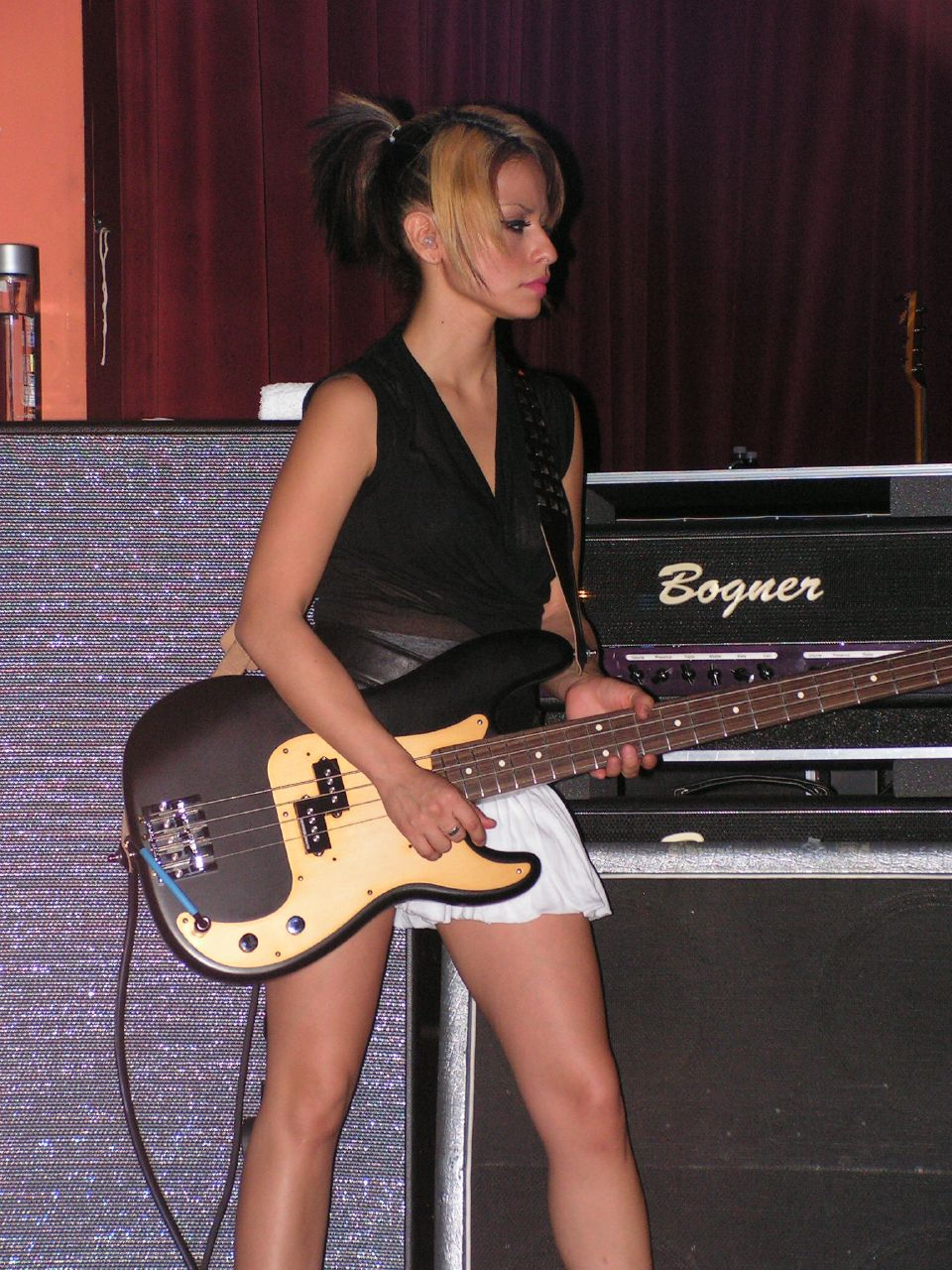 The Smashing Pumpkins (bass guitarist Ginger) at The Orange Peel in Asheville, NC. 9 show residency - show #2.